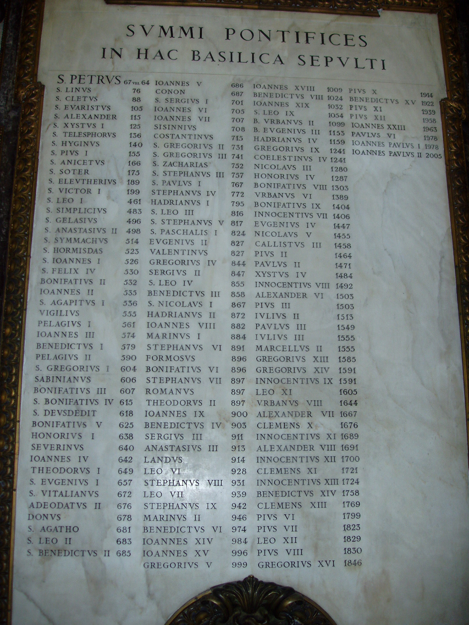 Photograph of the list of all popes from St. Peter to JP II; taken at Saint Peter's Basilica, Vatican